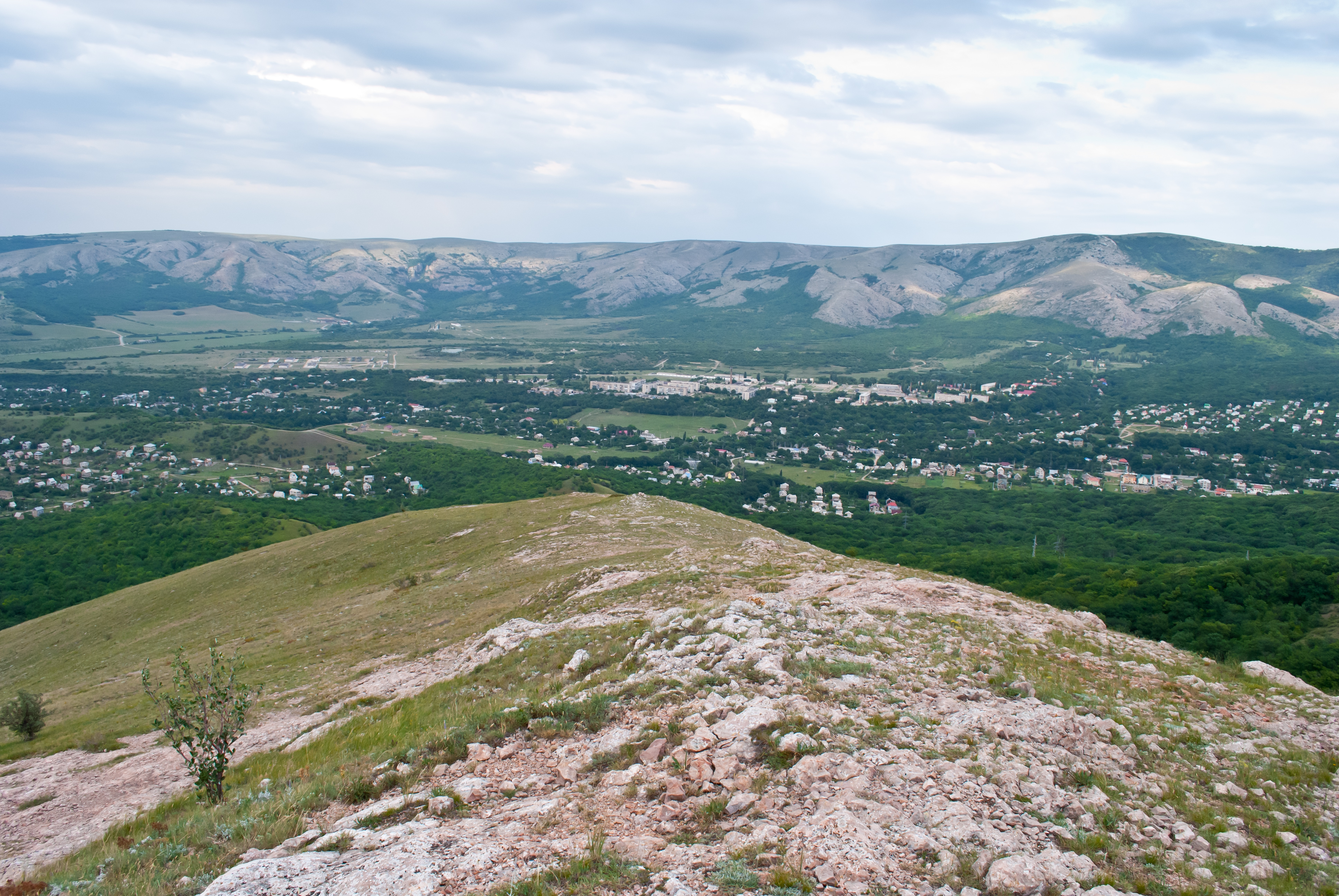 The village Perevalne (Crimea, Simferopol district) foted from the northeast slopes of Chatyr-Dag mountain.